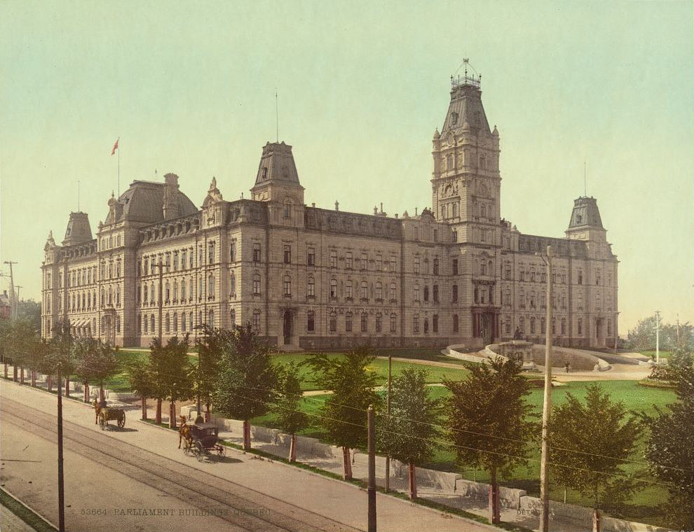 Parlement of Quebec, c1901. Photochrom print. [1]